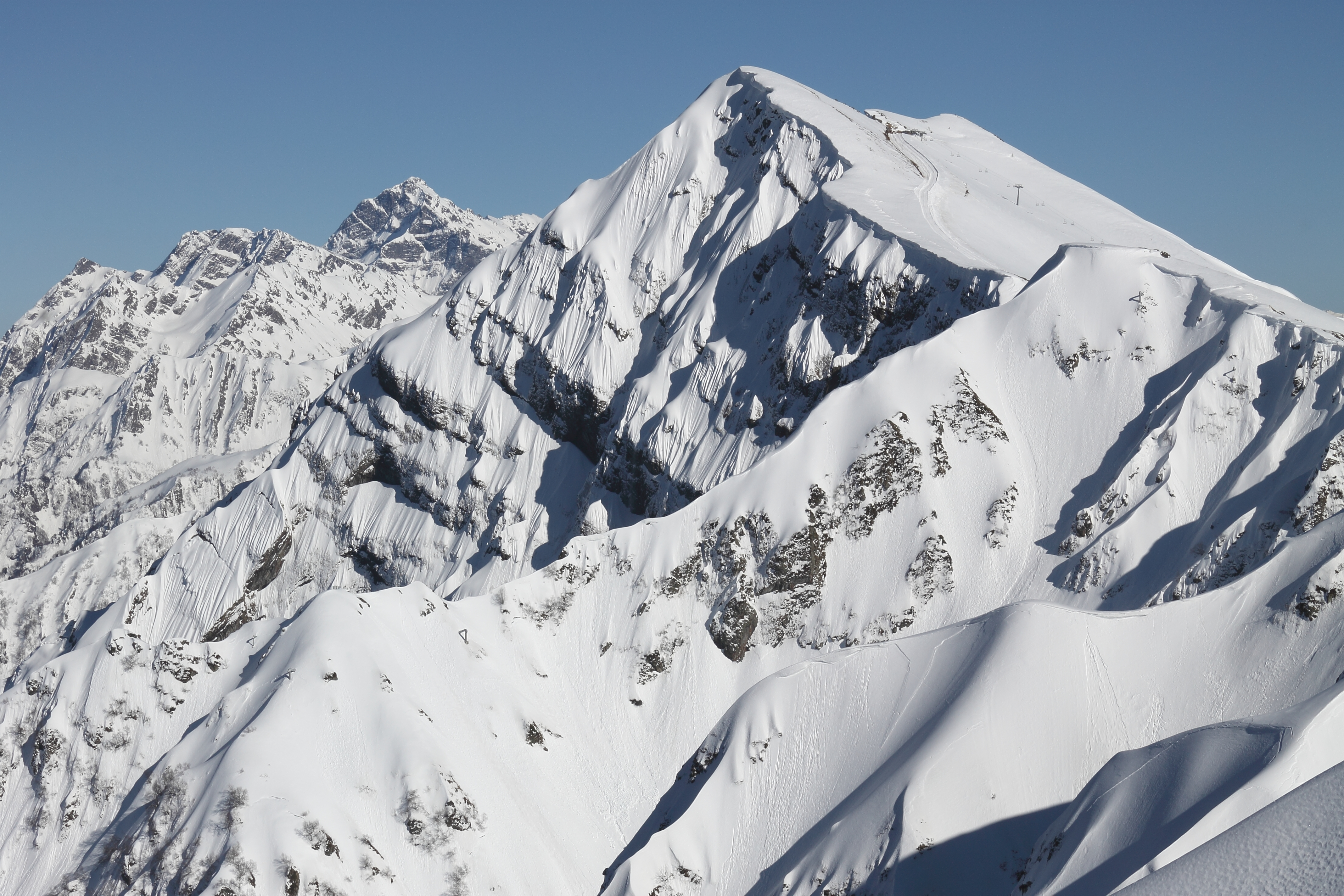 Mountains in Krasnaya Polyana. A look towards the Kamenny Stolb mountain from the top ski lift station of Rosa Khutor Alpine Resort